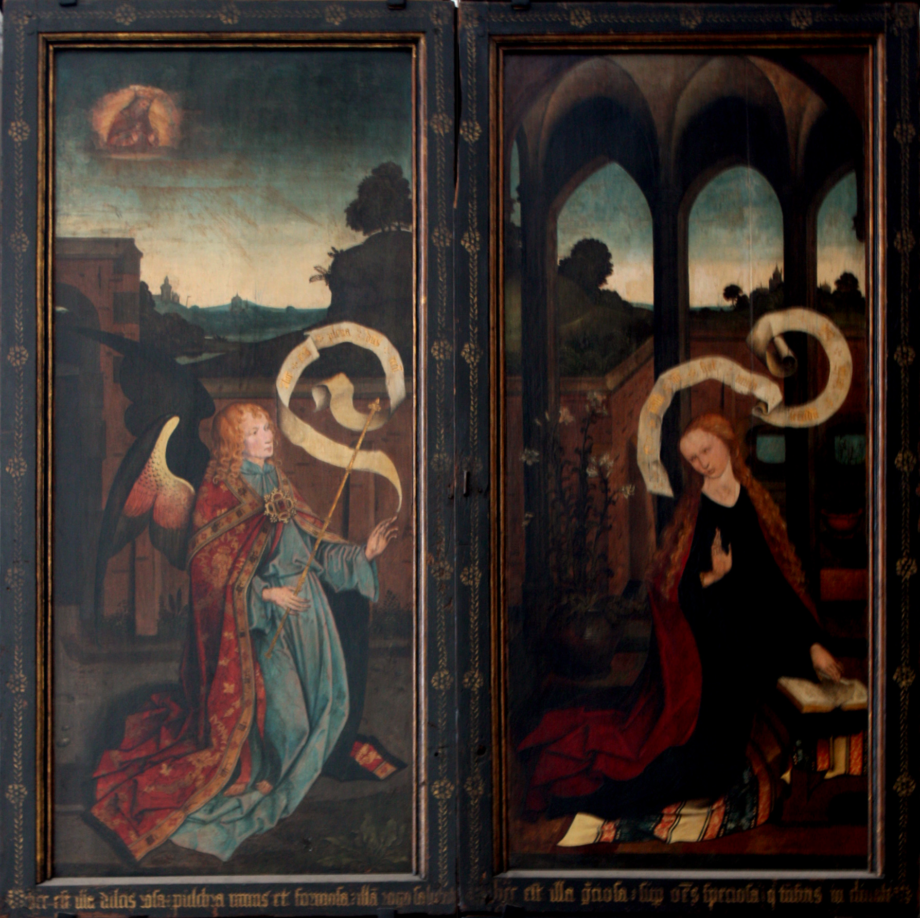 Great gotische altar of the Ferber Family Chapel, in St. Mary's Church, Gdańsk, Poland.